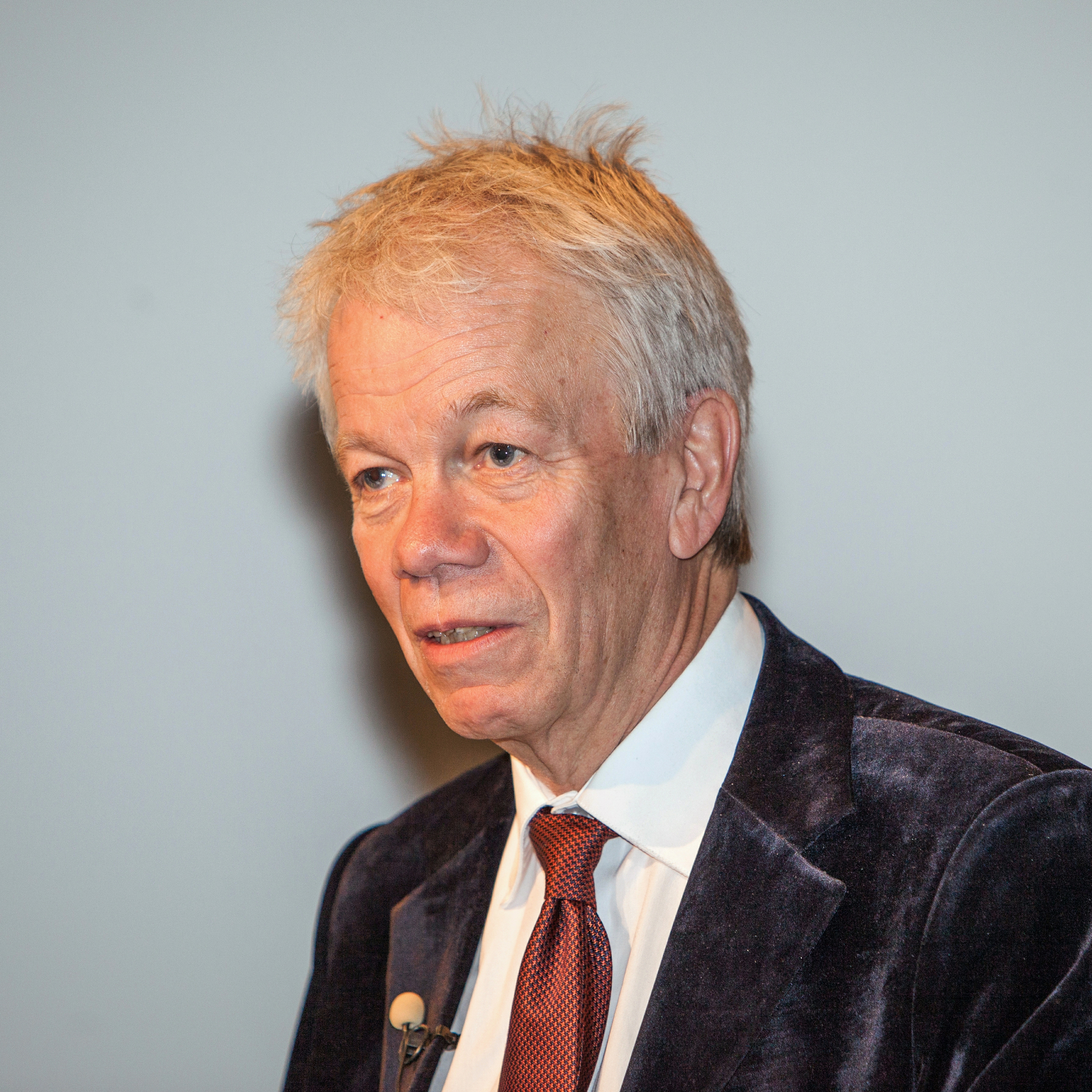 Lars Klareskog is one of three Crafoord Prize Laureates in Polyartheritis 2013